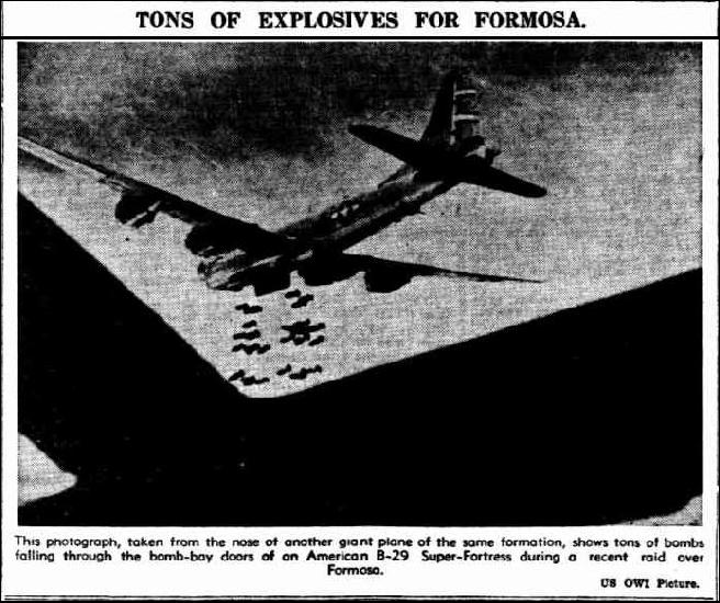 (news paper graphic)